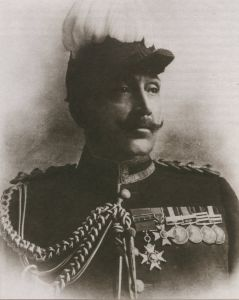 Major-General Sir Sam Benfield Steele, of Lord Strathcona's Horse (Royal Canadians)